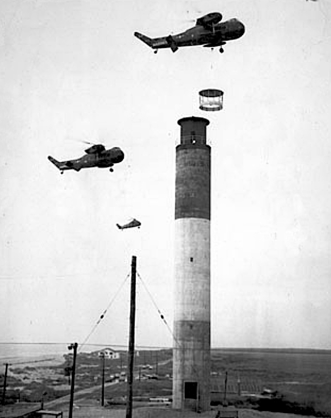 Helicopters hovering over the OI Lighthouse with its lantern